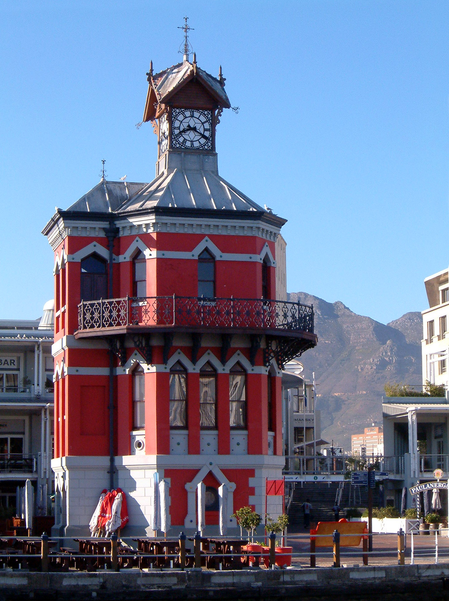 V&A Waterfront Clock tower in Cape Town, South Africa. It was built in 1883.